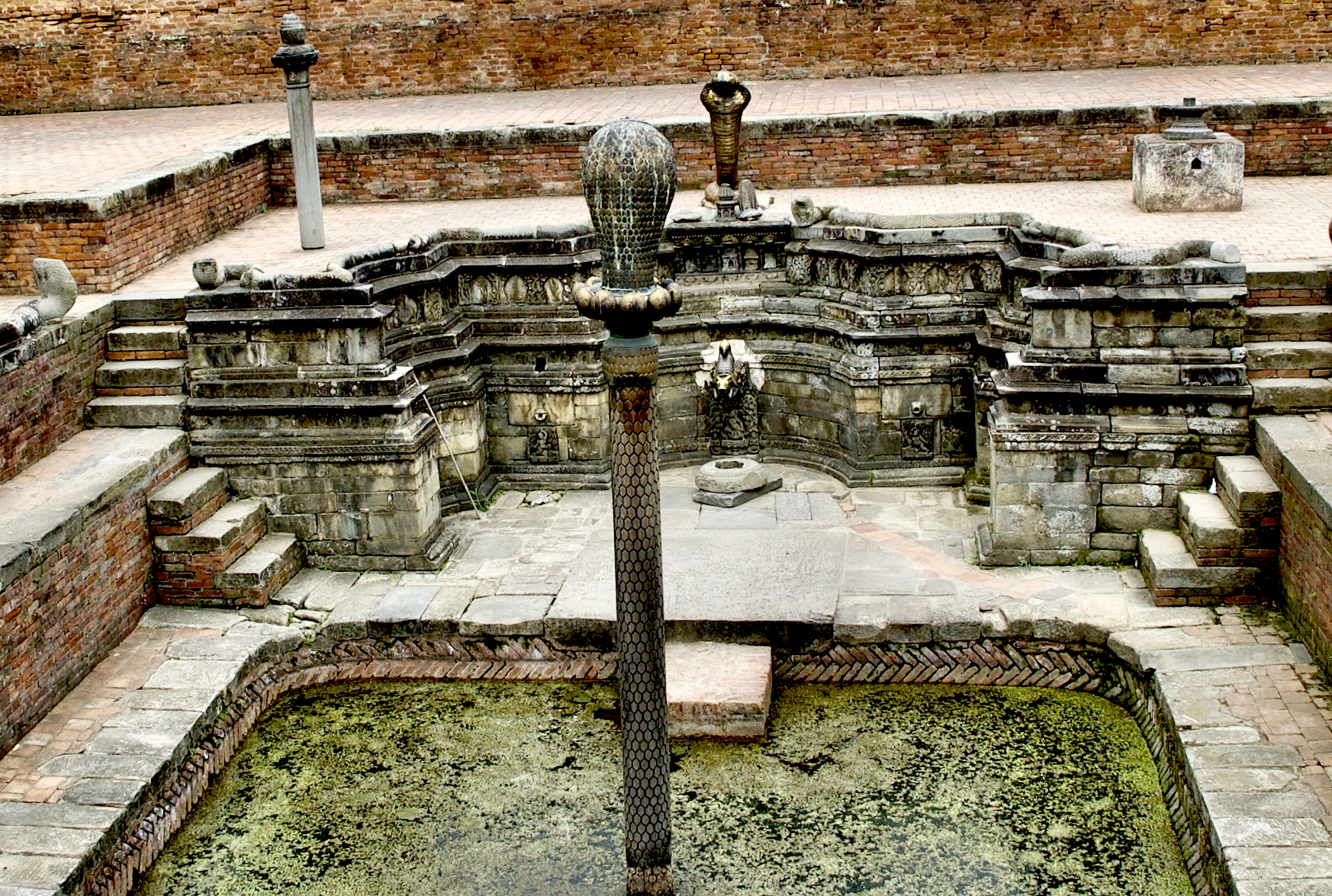 The Naga Pokhari (Royal Bath) in the Mul Chowk (Taleju Temple), Bhaktapur, Kathmandu Valley, Nepal Аҧсшәа: Il Naga Pokhari (Bagno Reale) nel Mul Chowk di Bhaktapur, Bhaktapur, Valle di Kathmandu, Nepal